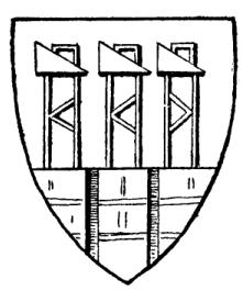 Coat of arms Grzymała from the seal of Buznański, 1343